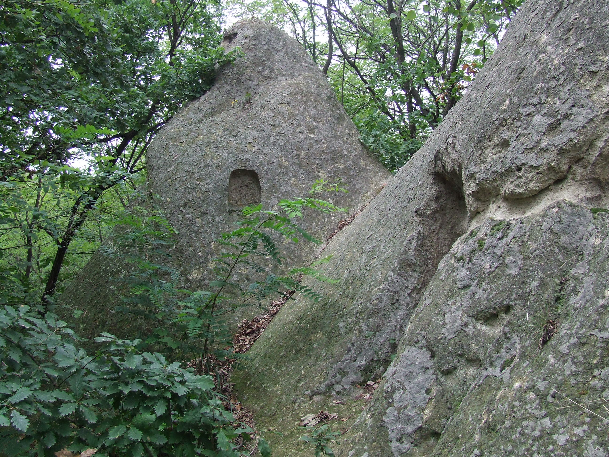 A beehive stone (Kaptárkő) to the east of Eger in Hungary